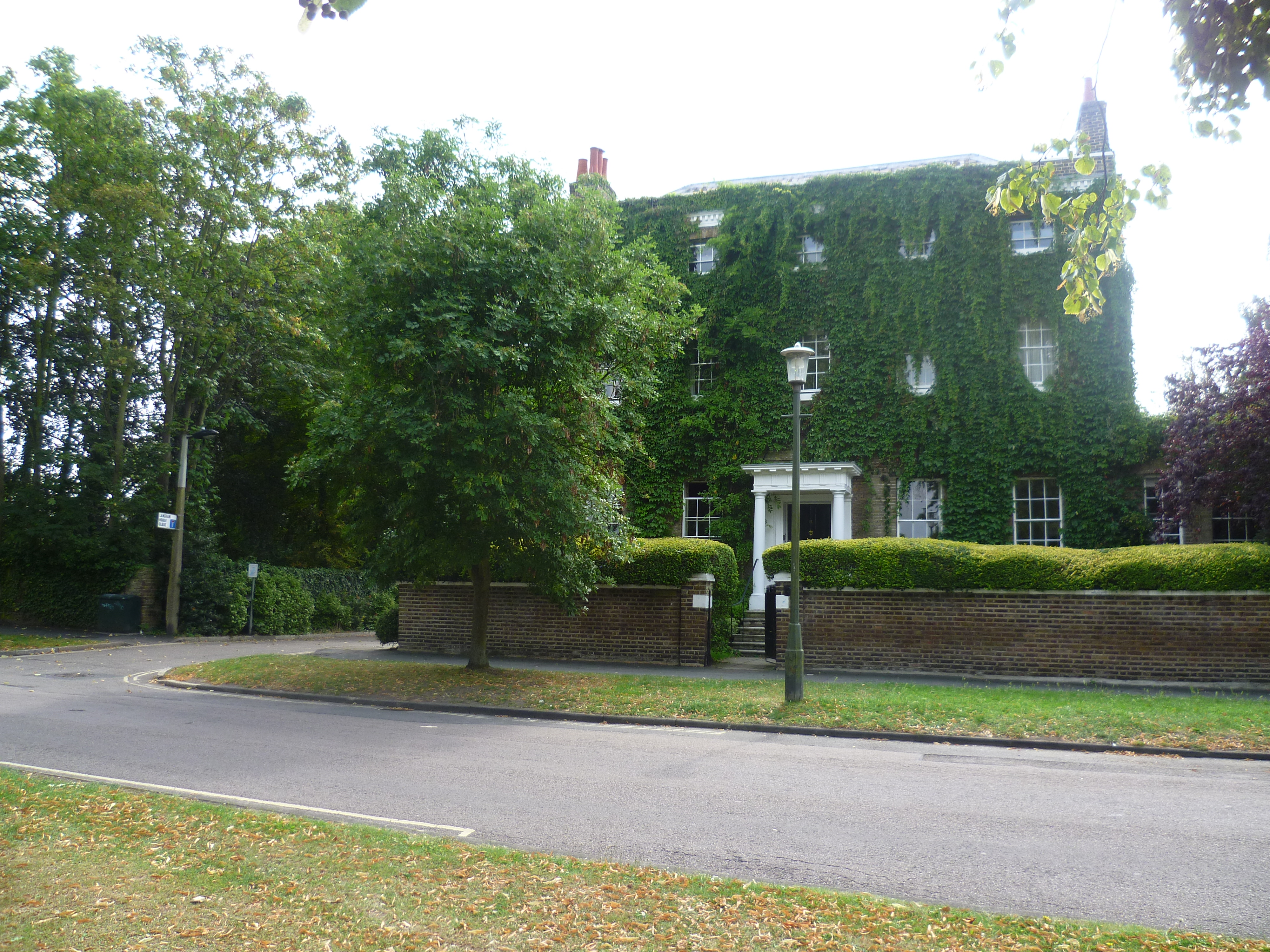 Ivy-covered Langham House in Ham Street